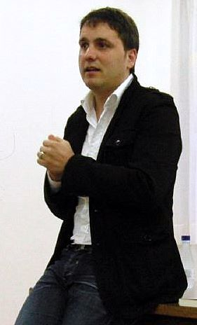 Kirmen Uribe, Spanish writer in Basque.